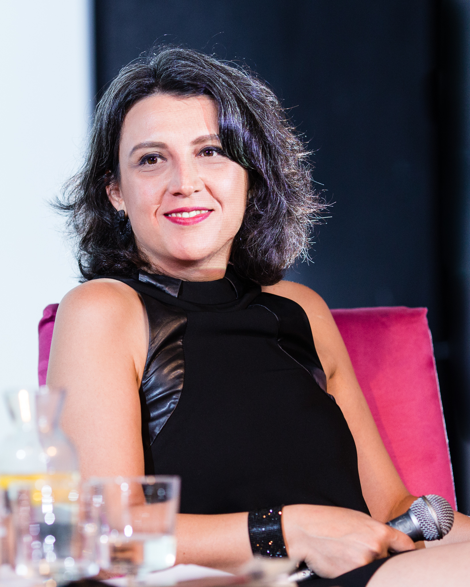 Gonca Özmen on Authors’ Reading Month 2018, Wrocław, Poland